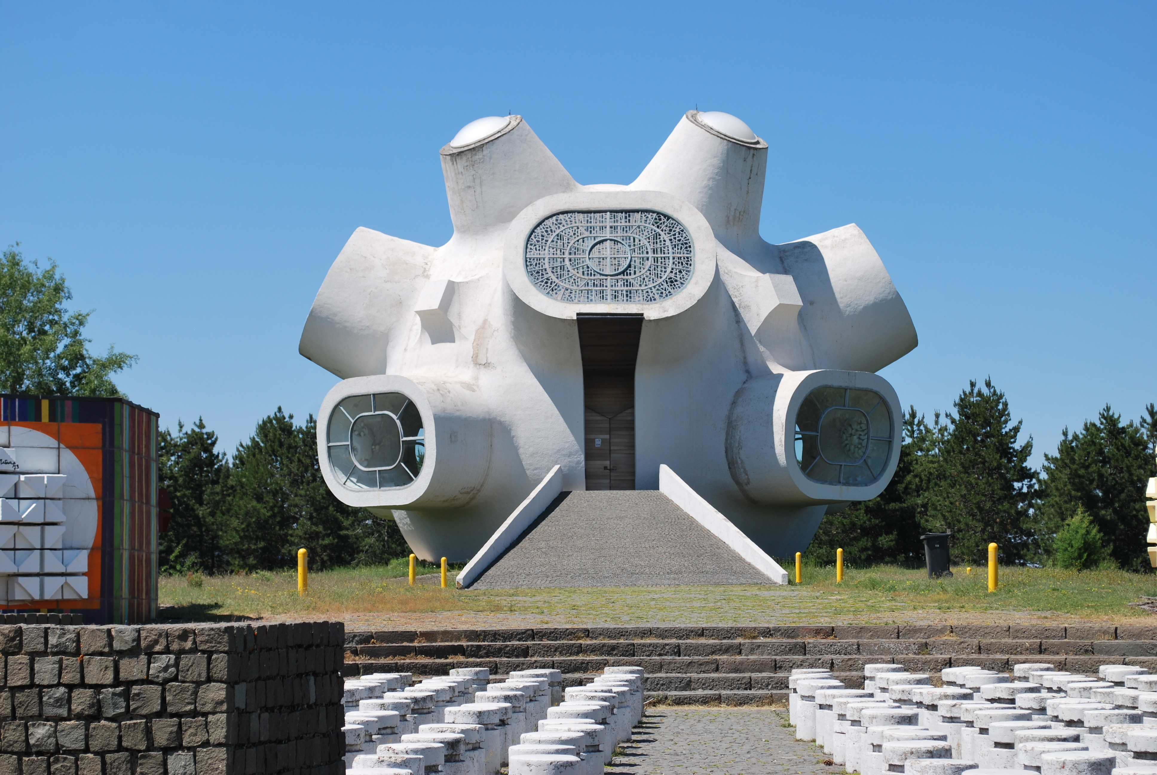 Makedonium in Kruševo, Macedonia